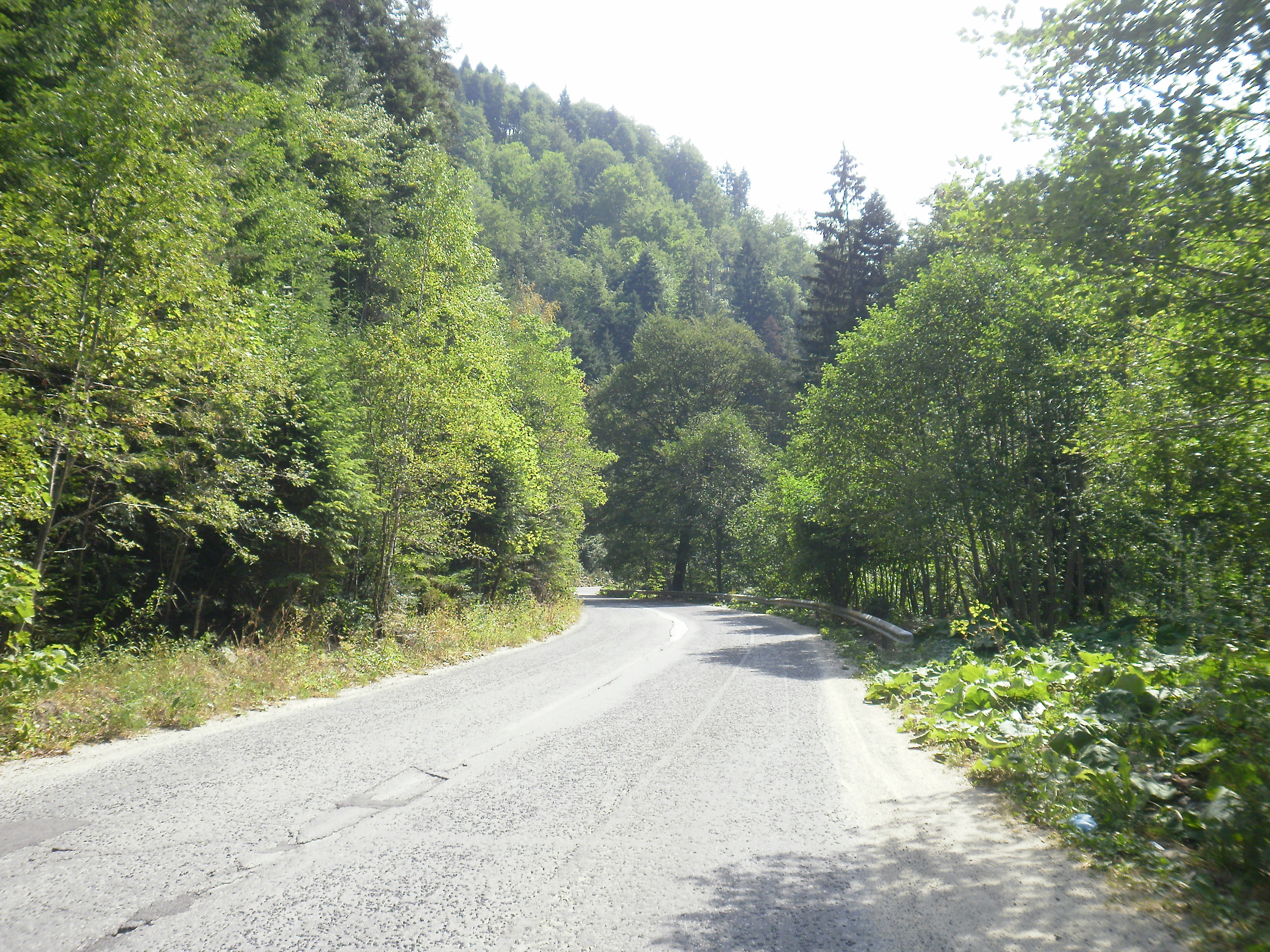 Road 842, Yundola-Belovo, Bulgaria